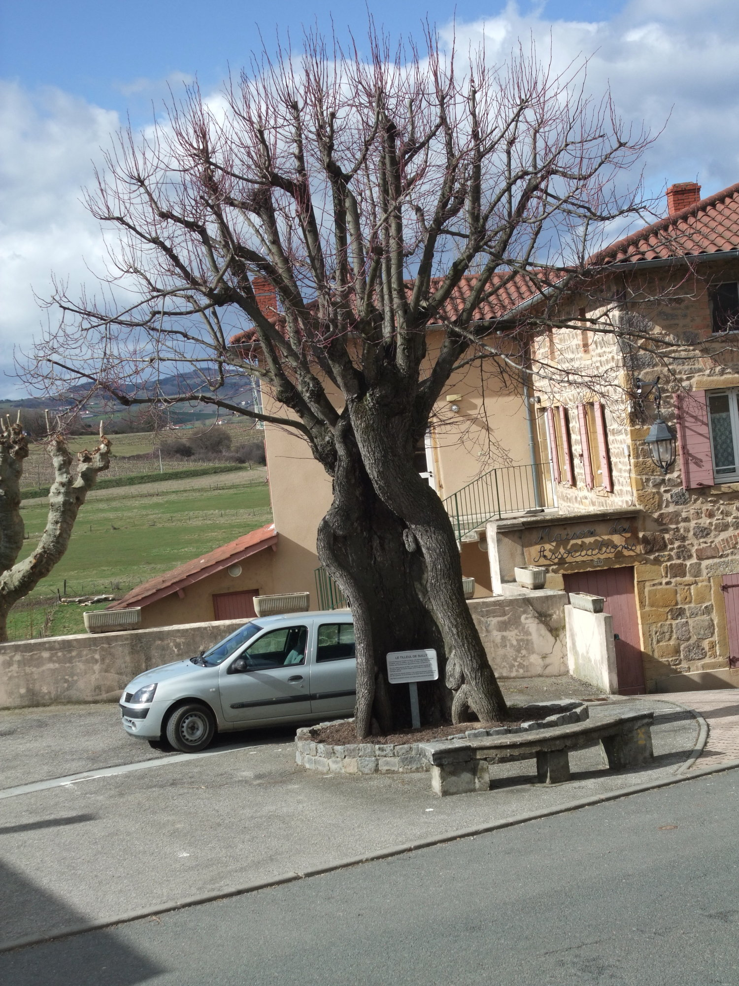 Old tillia at the center of Sarcey, France.